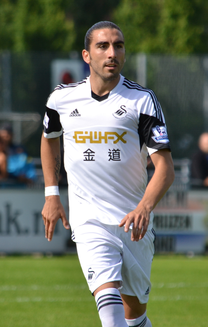 José Manuel Flores during 2012/13 pre-season tour with Swansea.